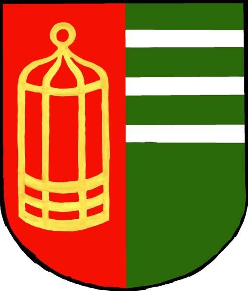 Municipal coat of arms of Klecany town, Prague-East District, Czech Republic.